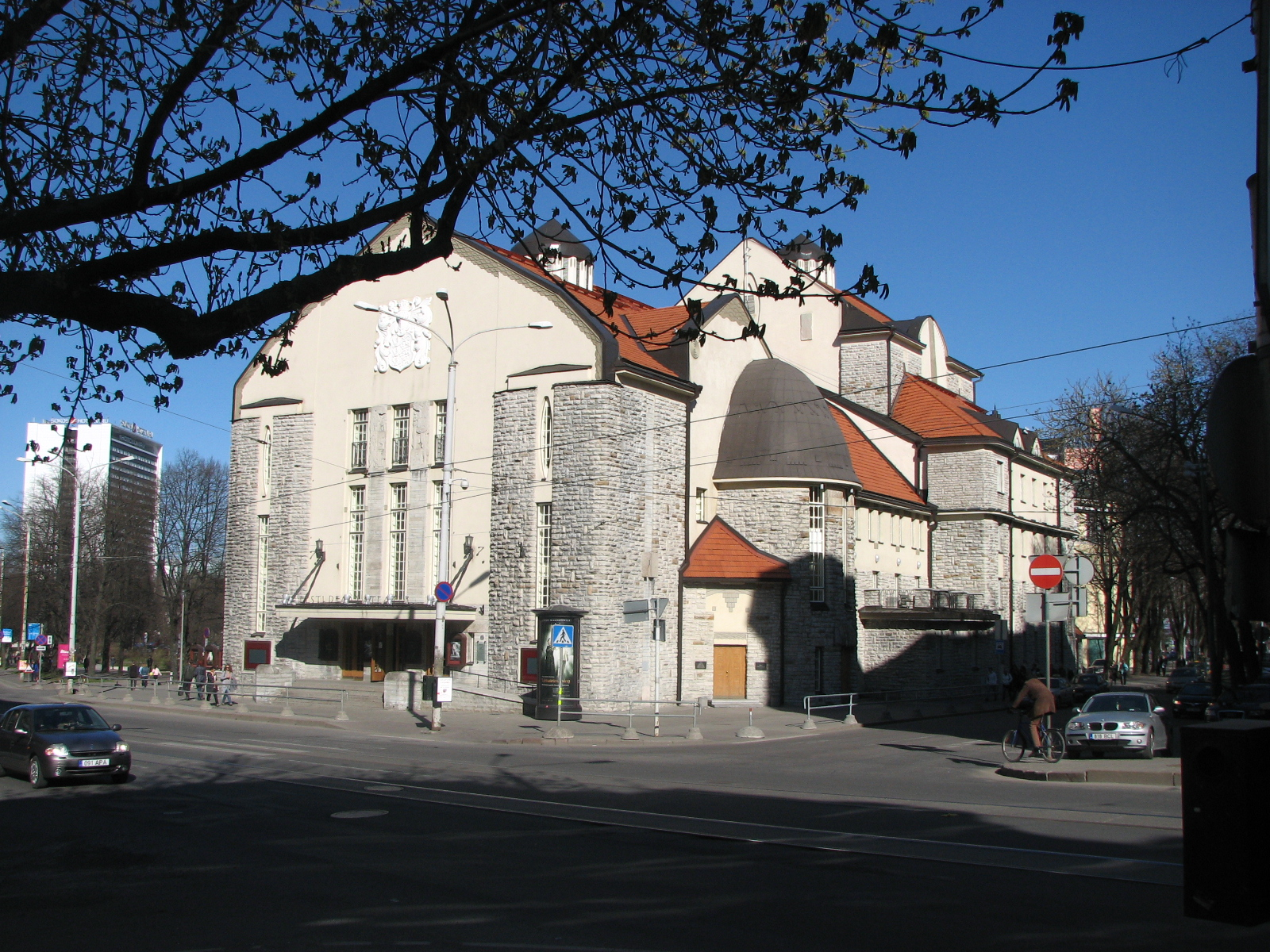 Estonian Drama Theatre building